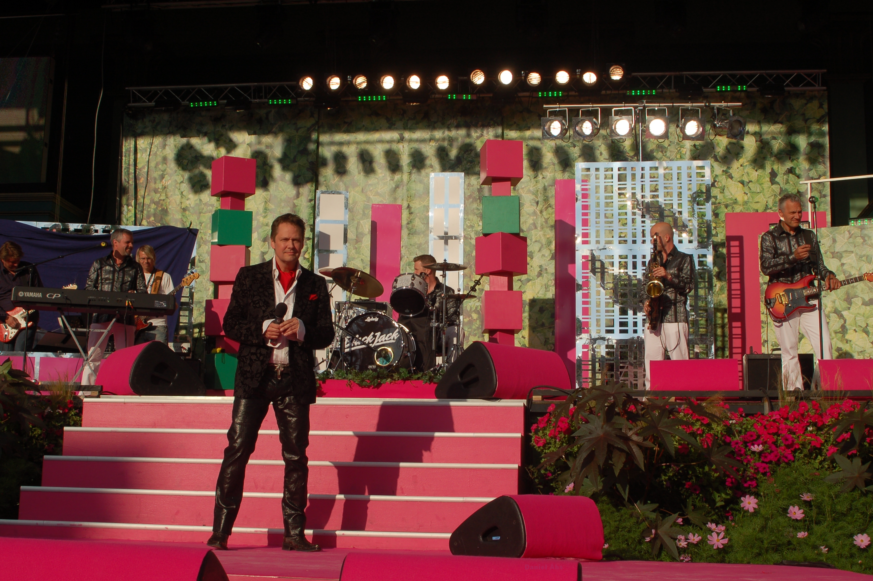 Black Jack at Gröna Lund, Sommarkrysset